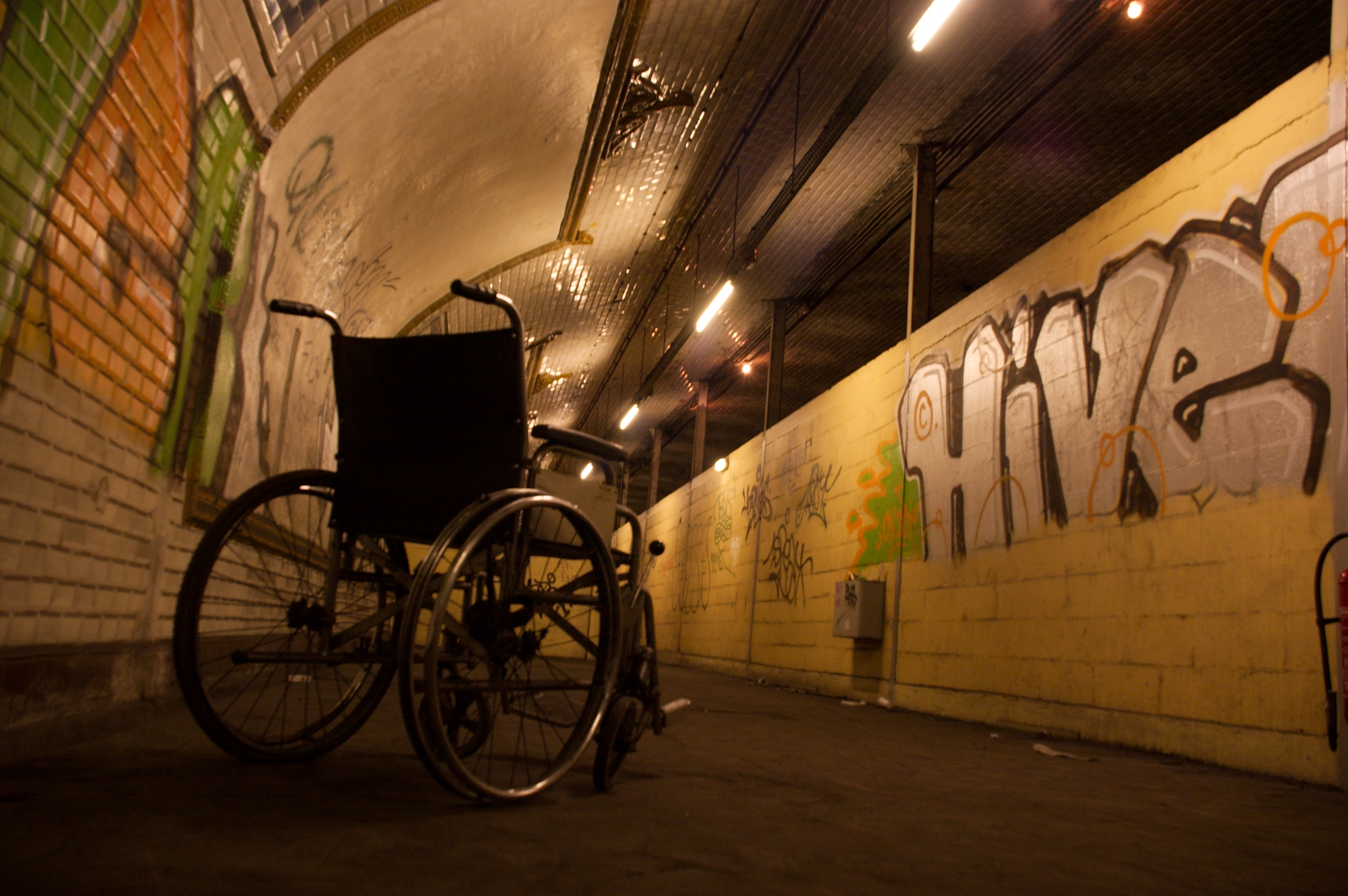 The abandoned Saint-Martin station of the Paris subway.